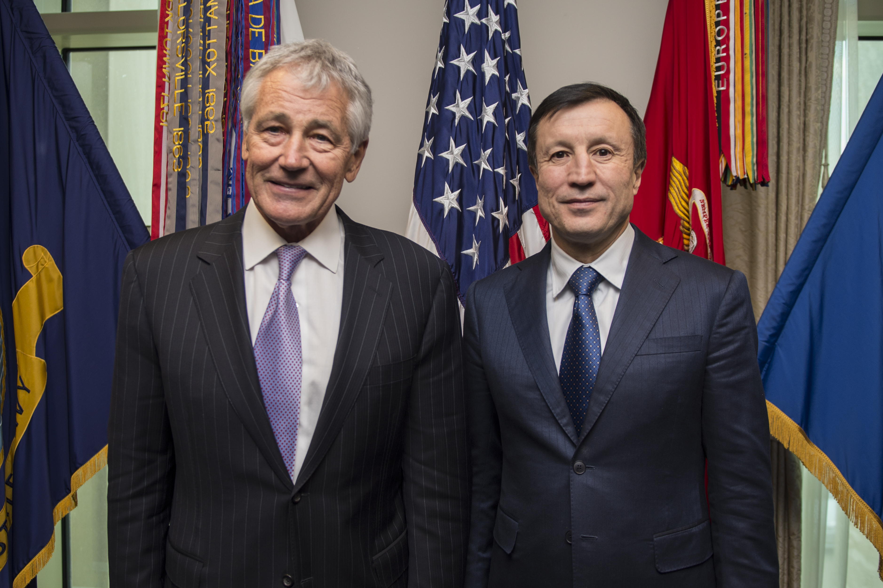 Secretary of Defense Chuck Hagel visits with Kazakhstan Minister of Defense Adilbek Dzhaksybekov at the Pentagon November 13, 2013. Official DoD photograph by Sgt. Aaron Hostutler USMC (Released)